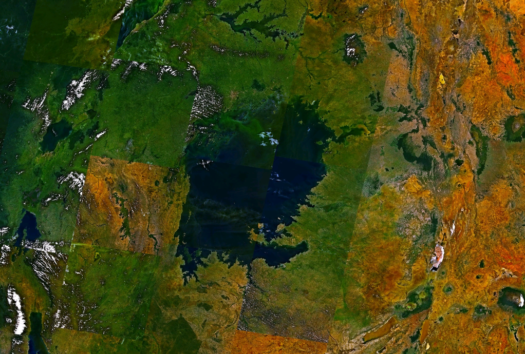 Landsat 7 Image of Lake Victoria.